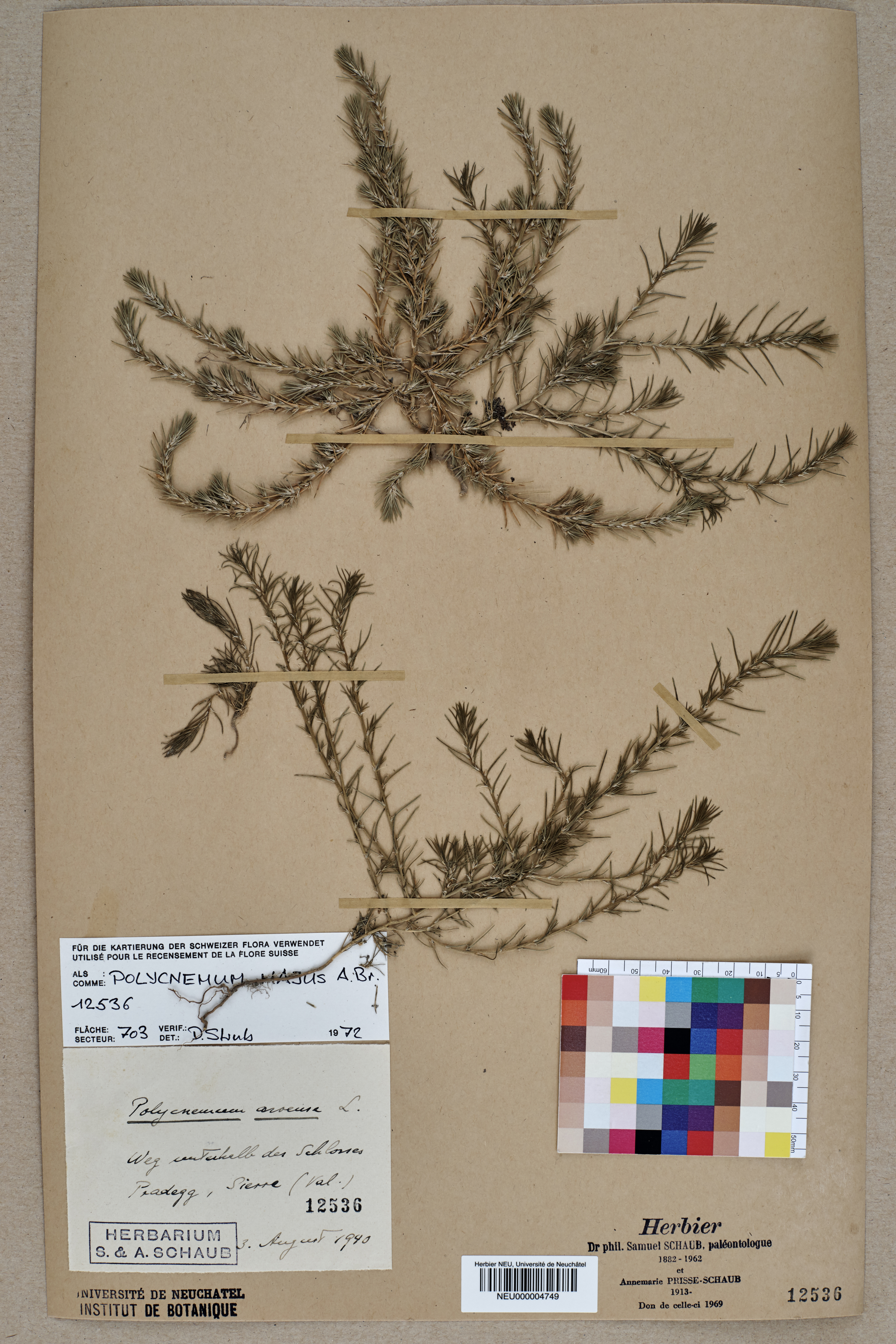 Dried pressed specimen of Polycnemum majus